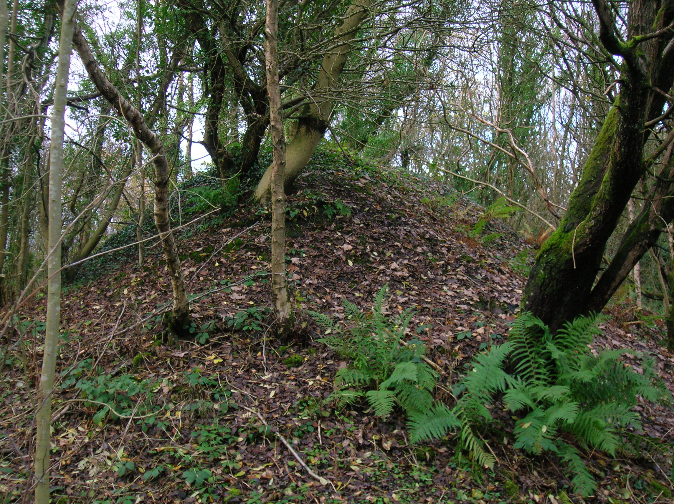 Fergushill pit no 26 at Sourlie, Eglinton, North Ayrshire, Scotland